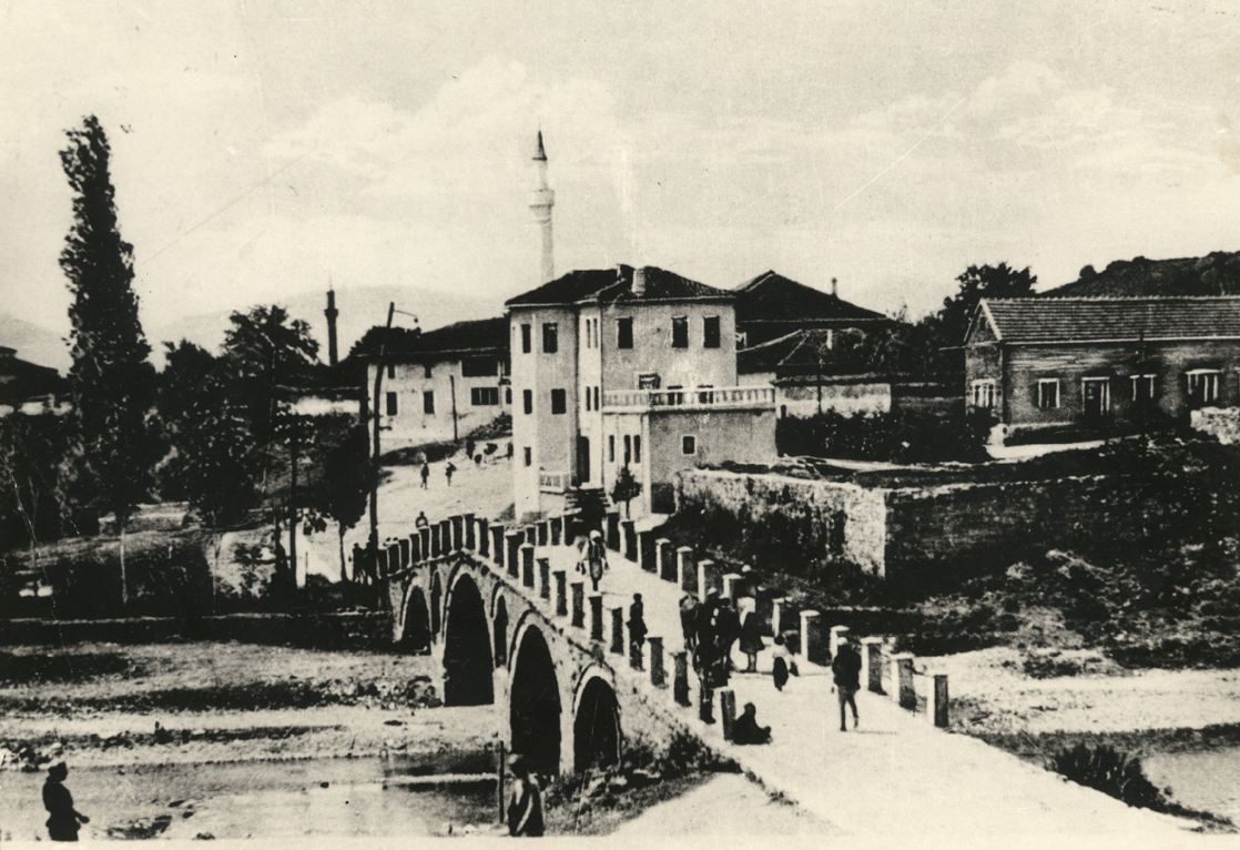 The Islam Begu Bridge in Gjakova. I've got the right of publishing in Wikipedia from the director of the Institute for Cultural Monuments Protection